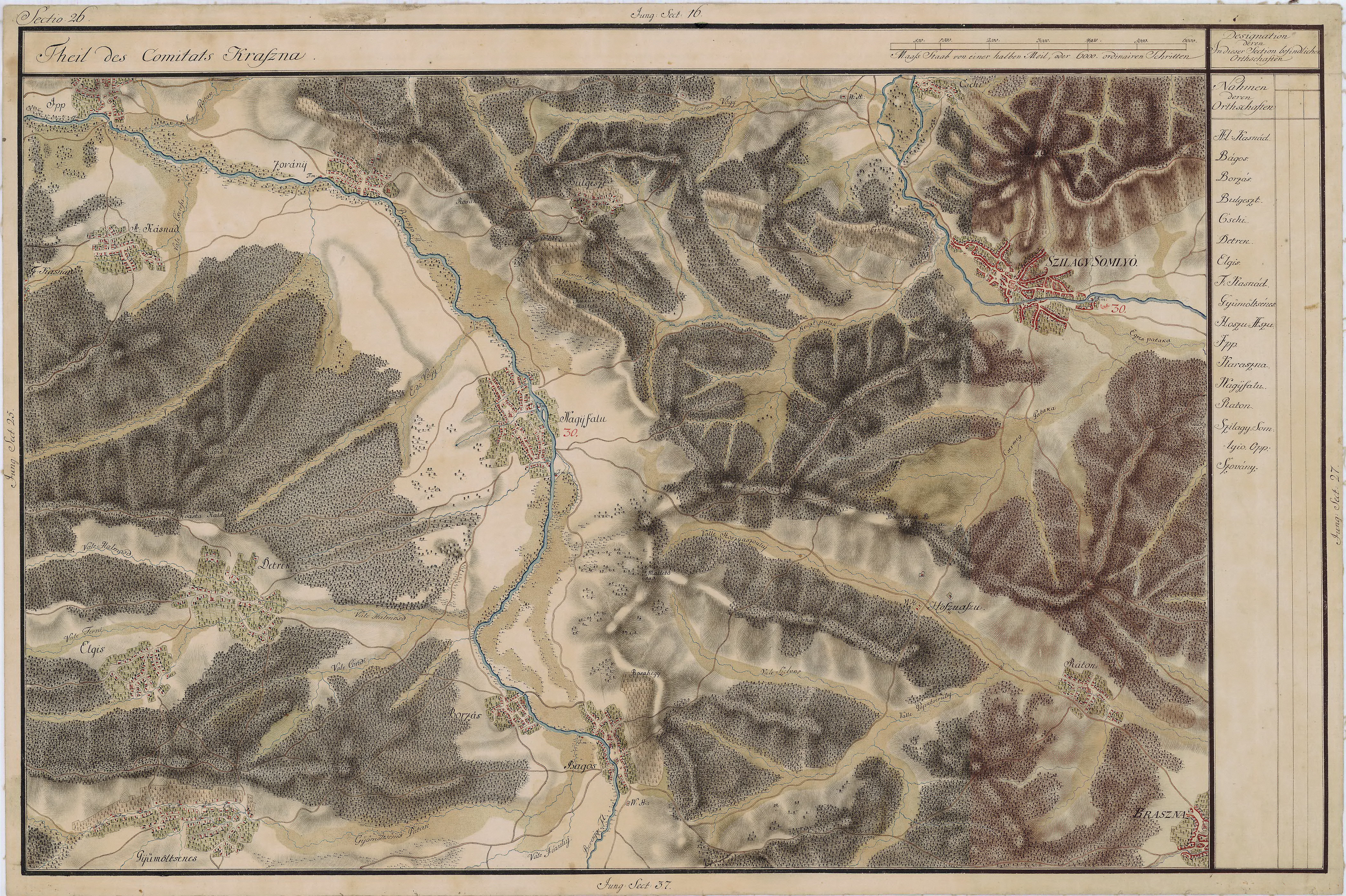 Grand Duchy of Transylvania, 1769-1773. Josephinische Landaufnahme pg.026